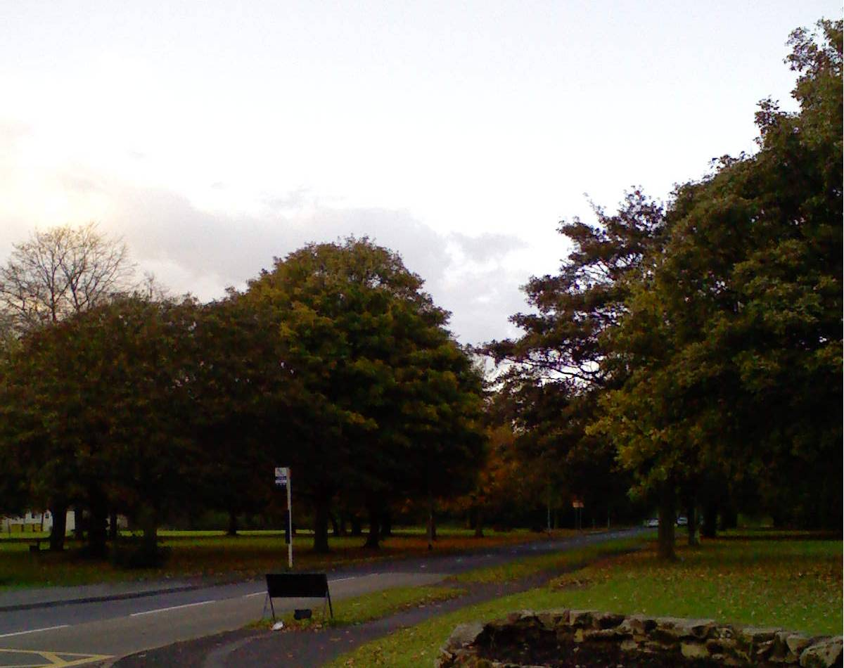 Brownhills Common, photographed by myself